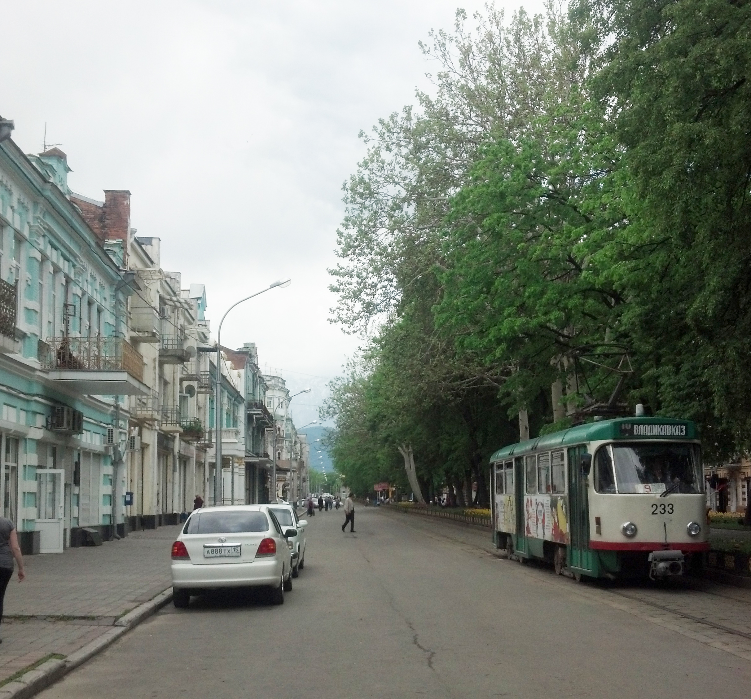 Tram on a pedestrianised Mira avenue in Vladikavkaz (North Ossetia, Russia) with Caucasus mountains in the background